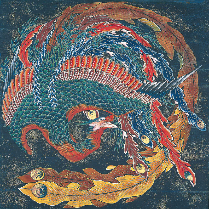 Phoenix by Hokusai on the ceiling of a festival float, Hokusaikan, Obuse, Nagano, Japan